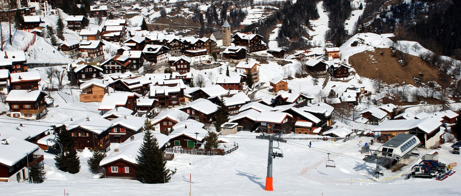 Village of Tschiertschen